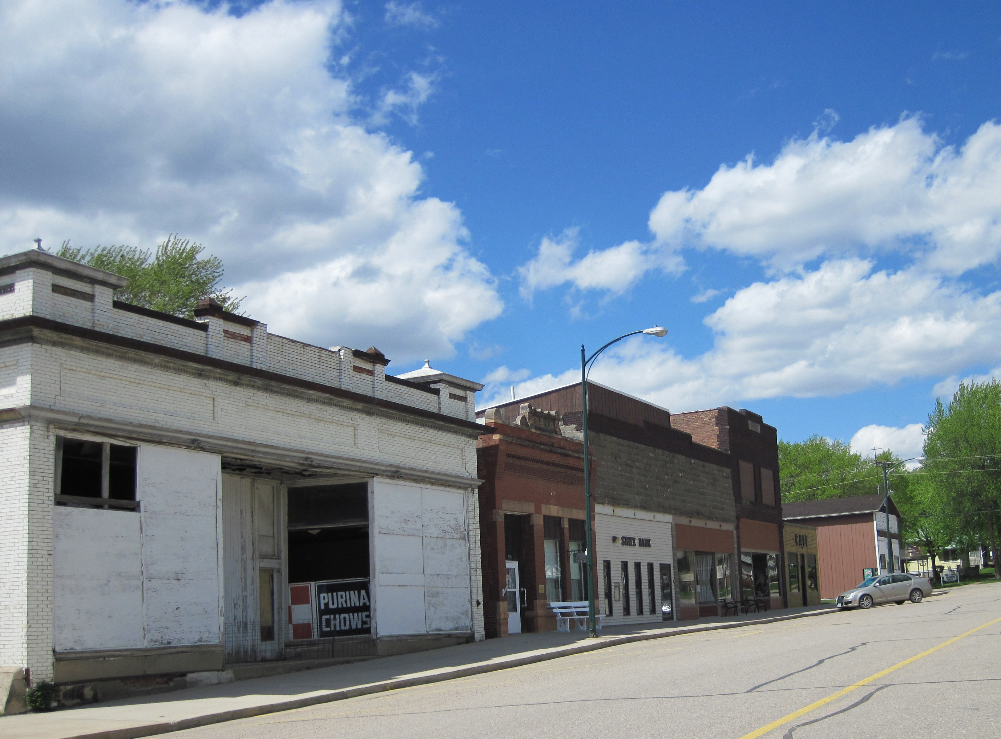 Peterson